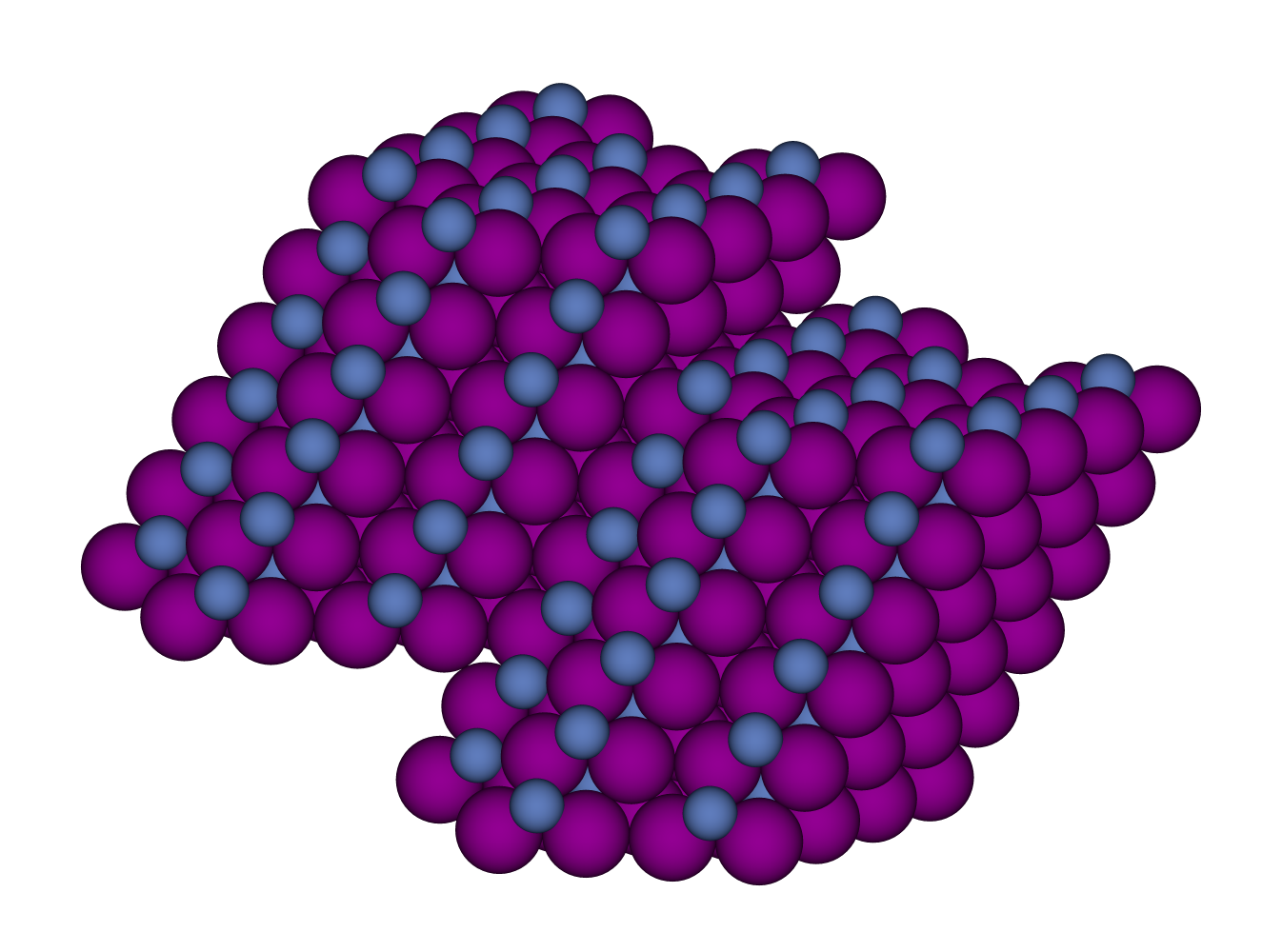 Space-filling model of part of the crystal structure of Nickel(II) iodide, NiI2. Structural data from the CrystalMaker 8.1 structure library, originally from Wyckoff R W G Crystal Structures 1 (1963) 239-444.